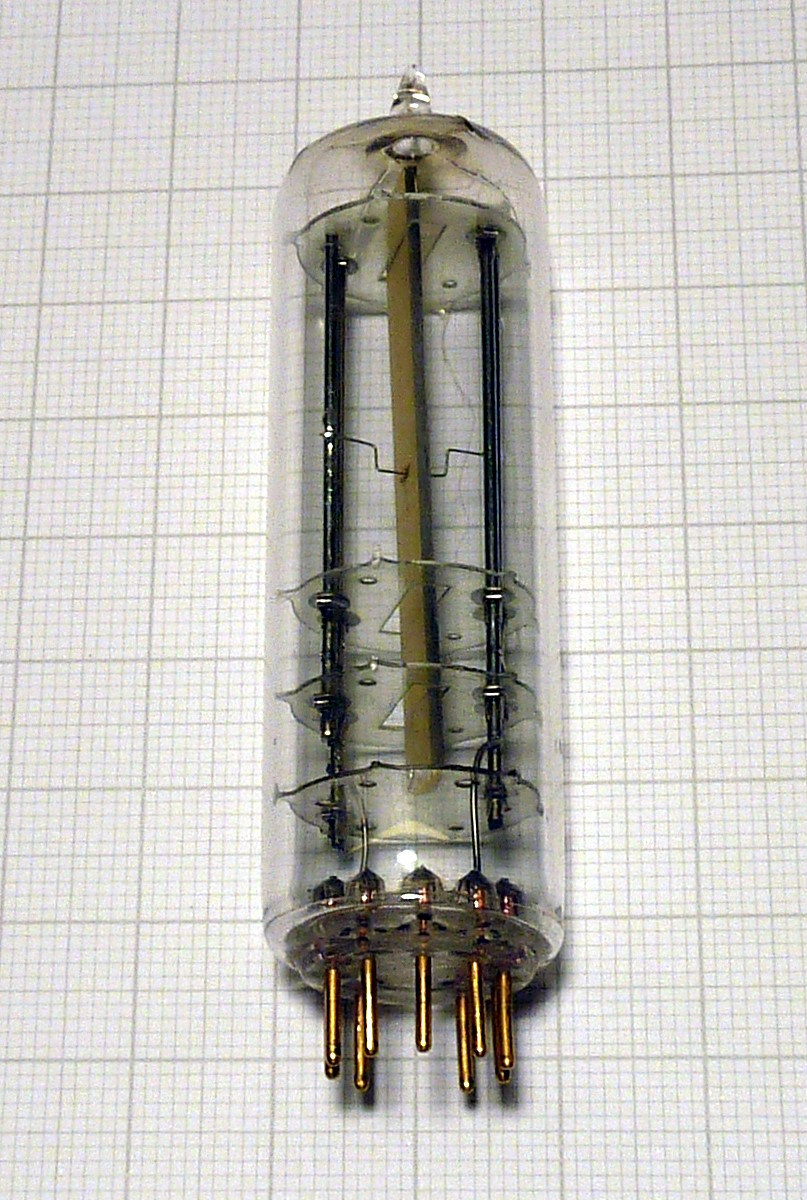 Low frequency quartz crystal resonator in an evacuated glass tube, used in crystal oscillators